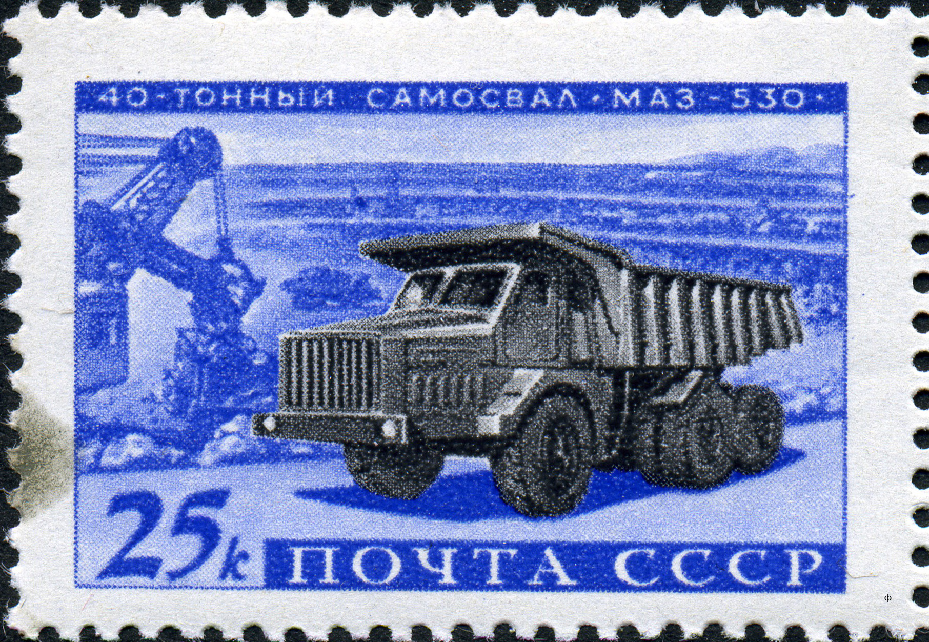 USSR stamp, 1960. Soviet MAZ-530 truck. CPA No. 2480.